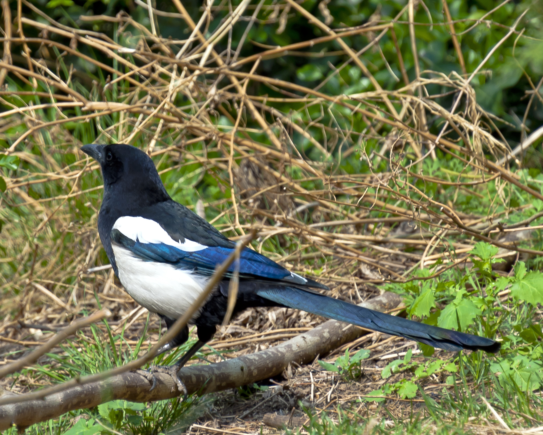 Oriental Magpie Pica serica in vegetation near the summit of Longevity Hill at the Summer Palace, Beijing